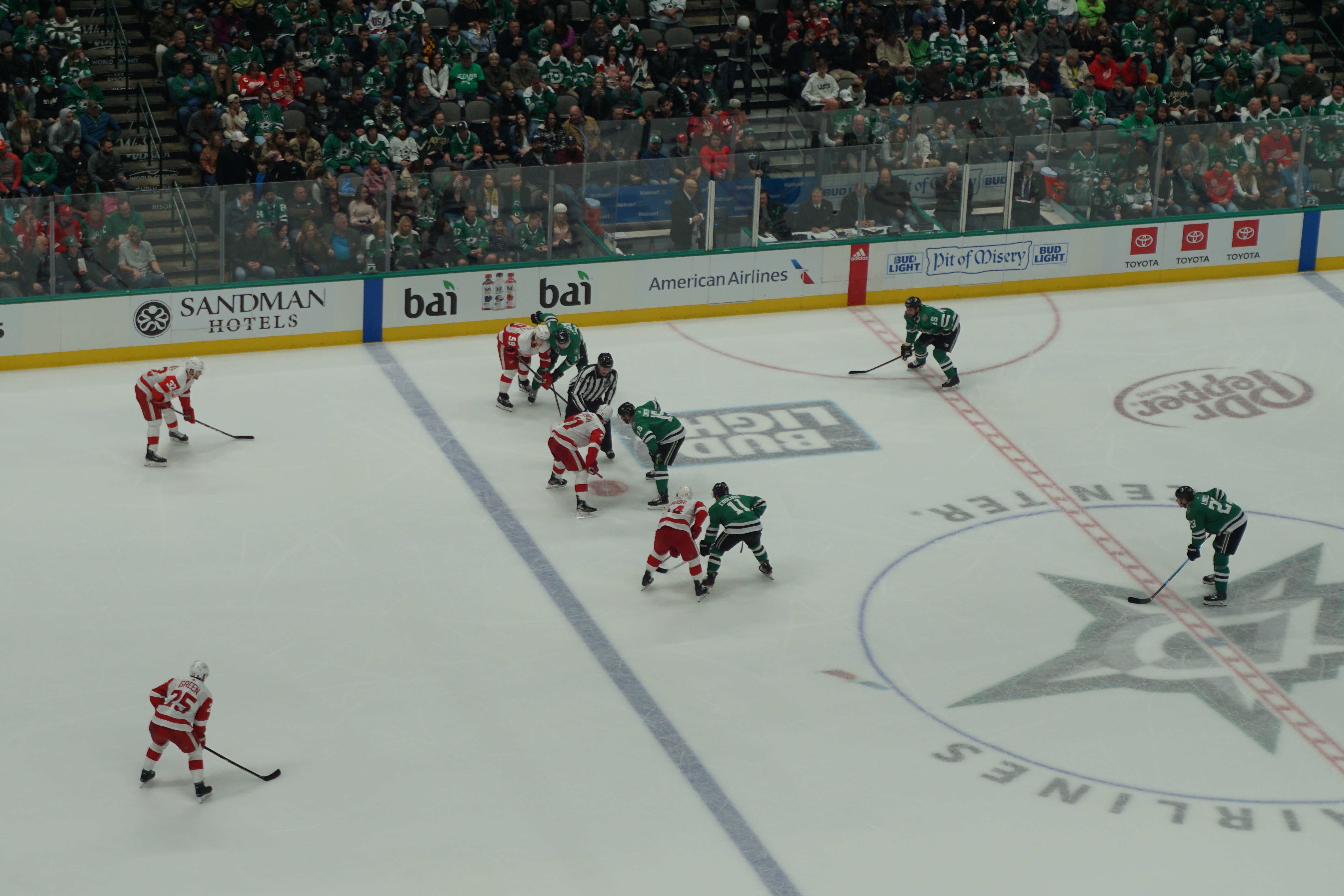 In-game action during the Detroit Red Wings vs. Dallas Stars game at American Airlines Center in Dallas, Texas (United States). Dallas won 4–1.